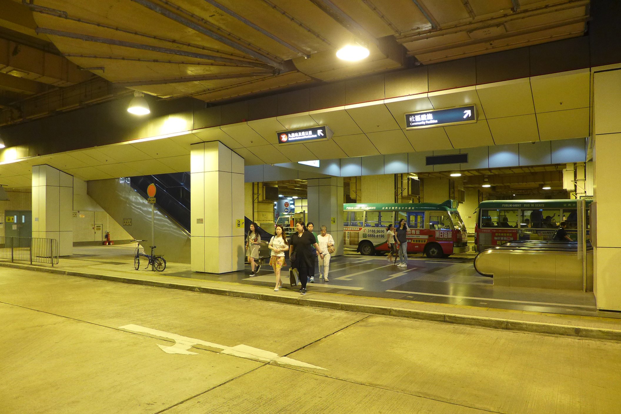 Kowloon Station Public Transport Interchange